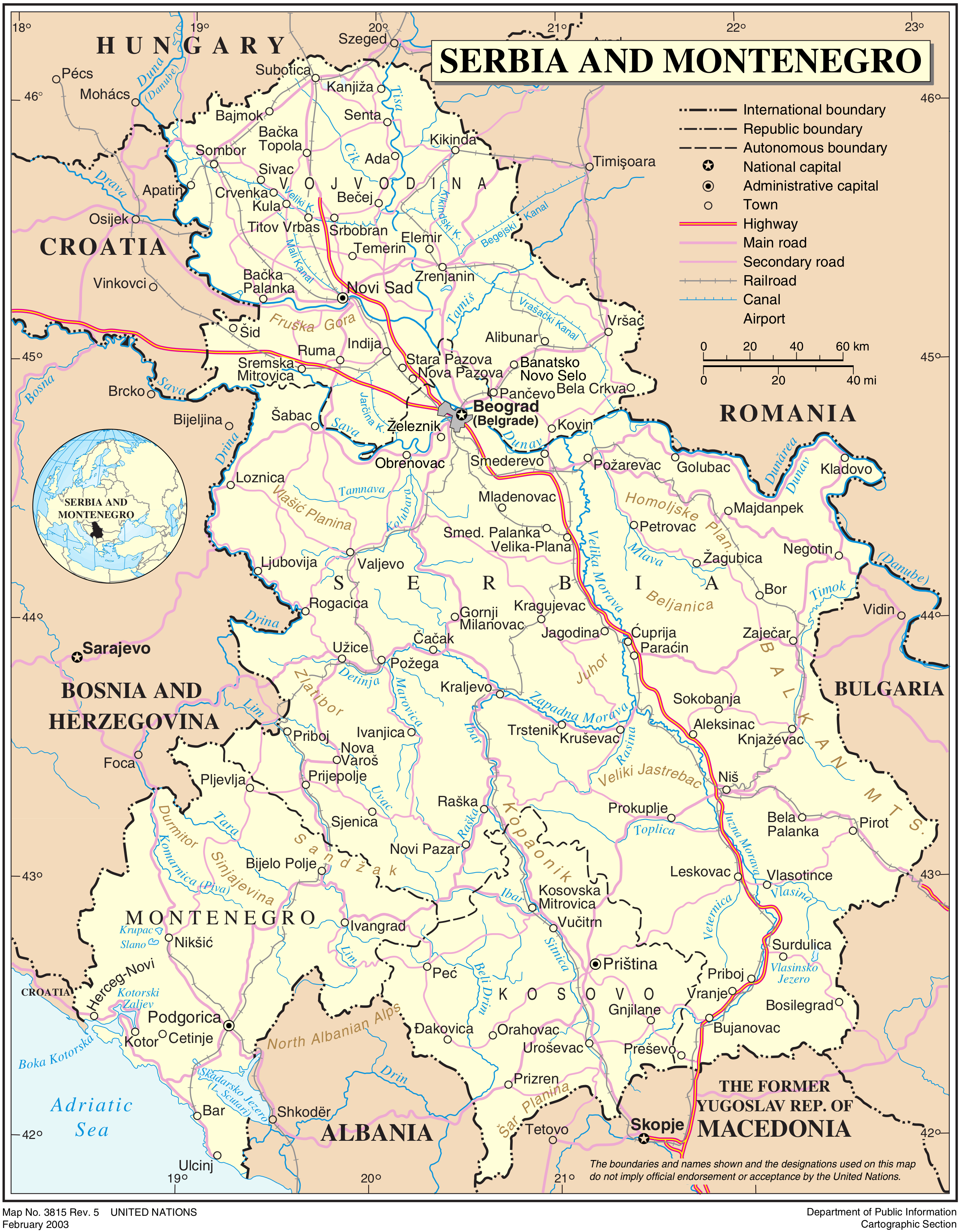 Map of Serbia and Montenegro. Produced by the United Nations Cartographic Section.